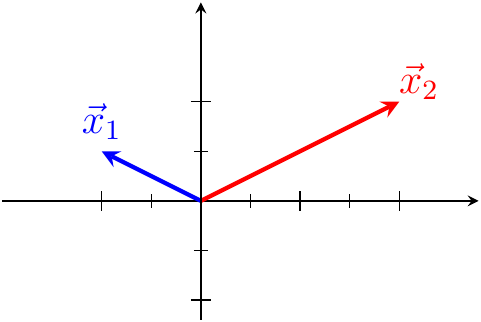 Two linearly independent vectors in 2D.